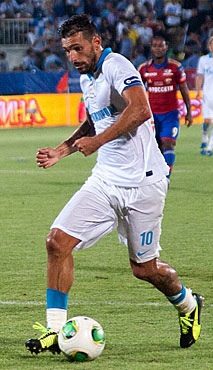 Danny during CSKA Moscow-Zenit Saint Petersburg, Russian Super Cup 2013